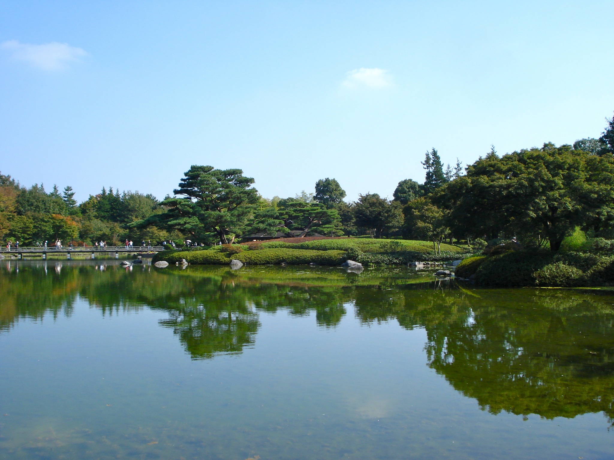 Showa Commemorative National Government Park (国営昭和記念公園 Kokuei Shōwa Kinen Kōen) is a national government park in Akishima and Tachikawa, Tokyo, Japan. It was established in 1983 as part of a project to commemorate the Golden Jubilee of Emperor Hirohito (or Emperor Shōwa).